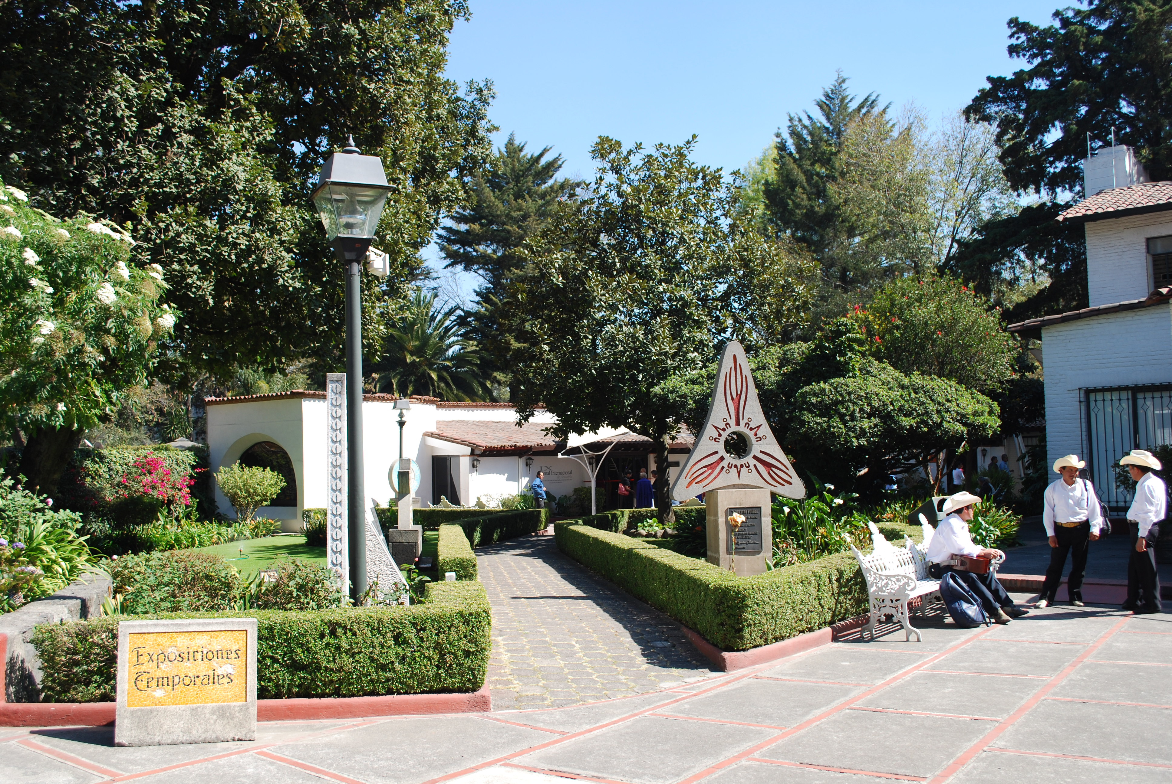 Yard area of the Museo Nacional de la Acuarela in Coyoacan, Mexico City